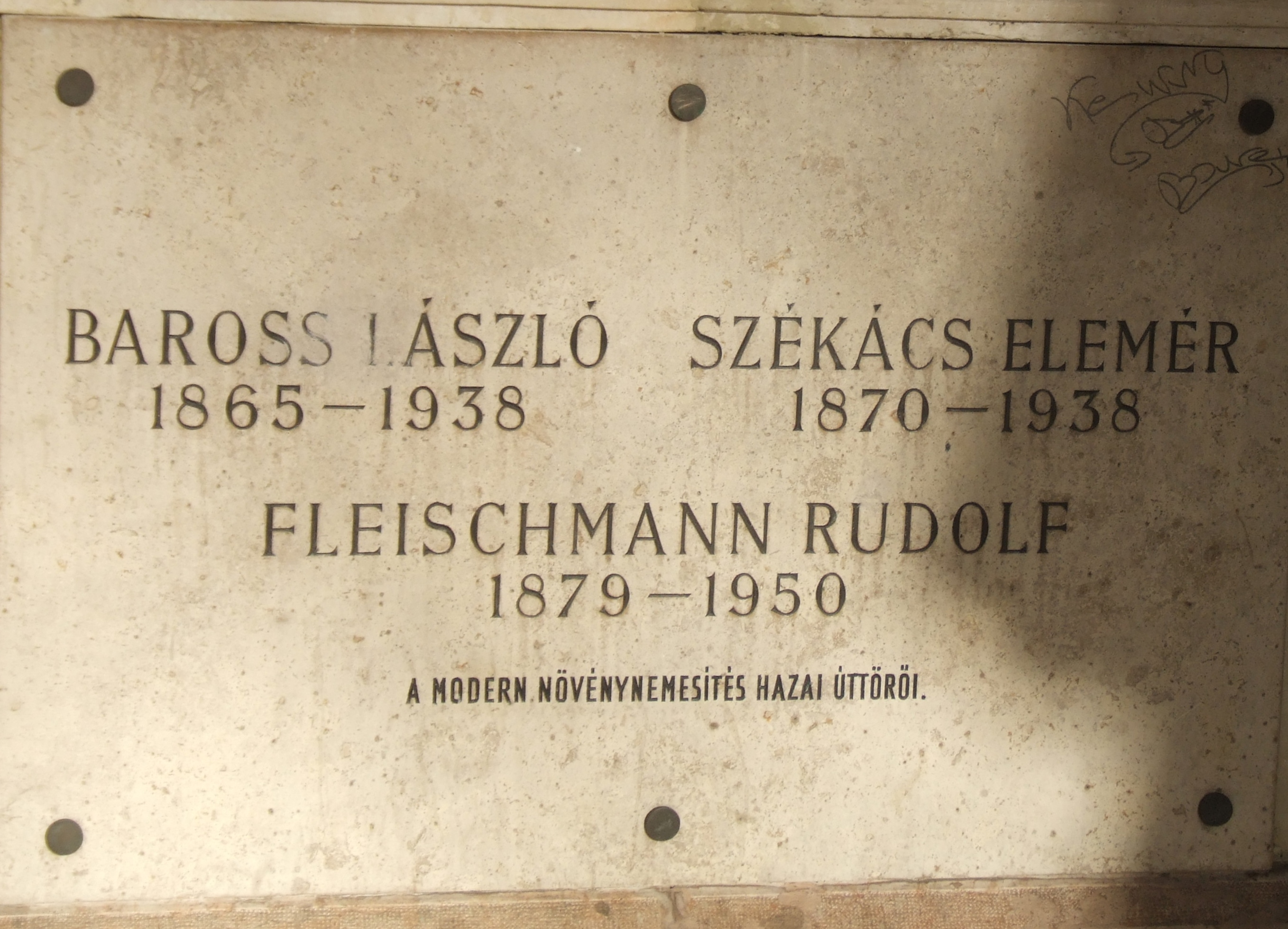 László Baross, Elemér Székács and Rudolf Fleischmann commemorative plaque in Budapest District V, Kossuth Square No 11